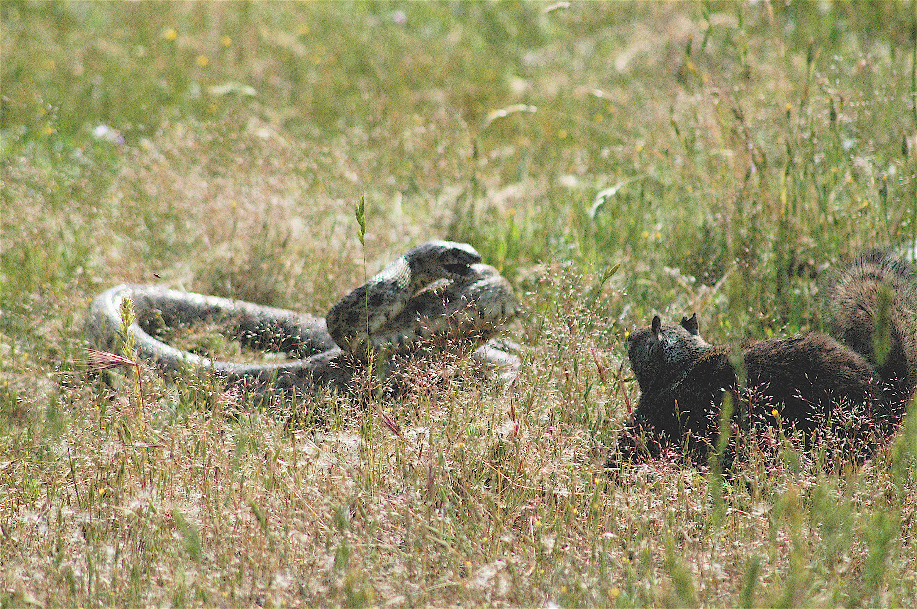 A good herpetologist can easily tell if this is venomous. Can you? The snake to the left is the same snake. This is not the best photo, but when I took the photo you could see it was a gopher snake, and I was able to capture the squirrel too.